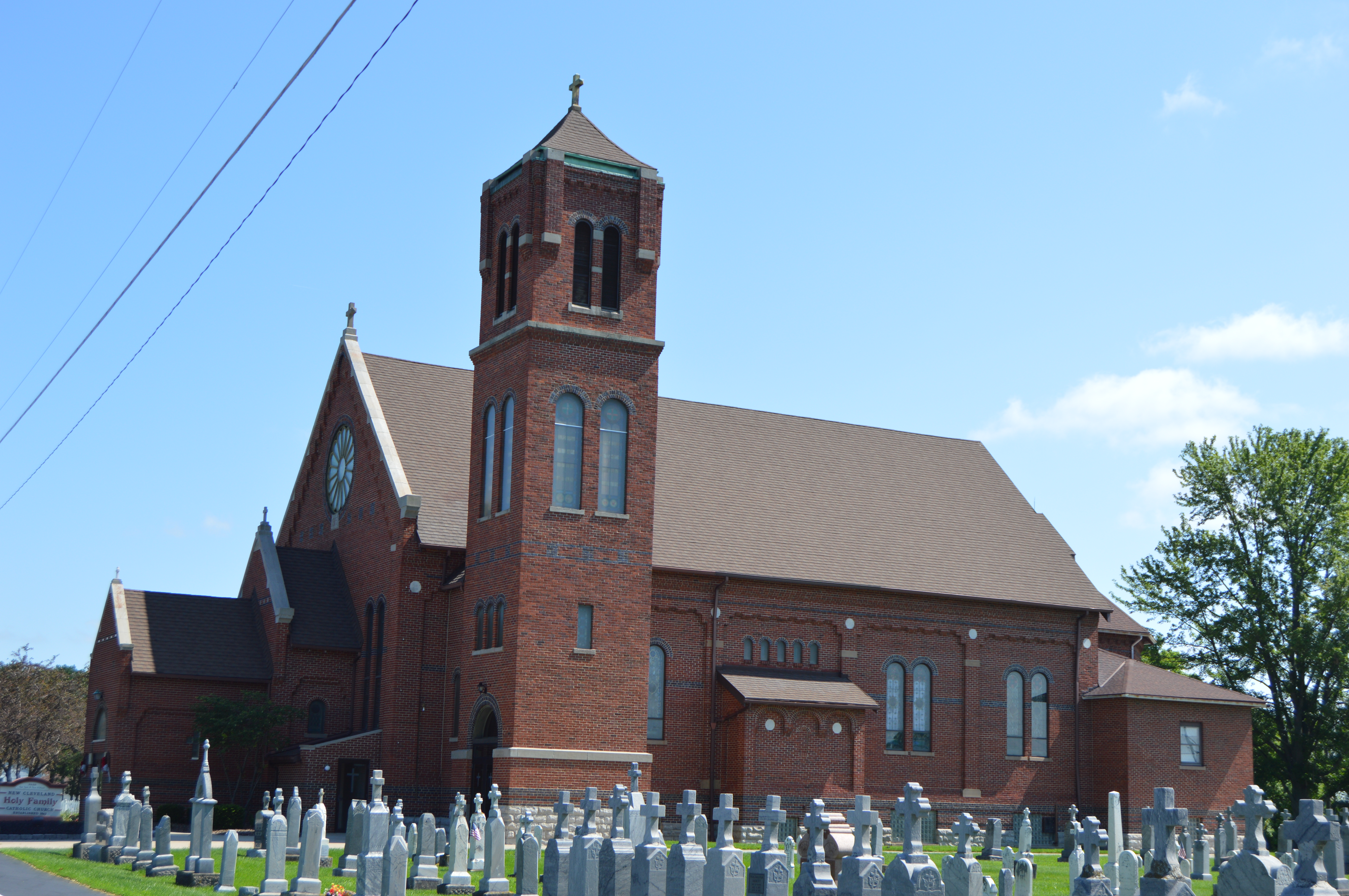 Front and southern side of Holy Family Catholic Church, located at 7359 State Route 109 north of Ottawa in Ottawa Township, Putnam County, Ohio, United States.